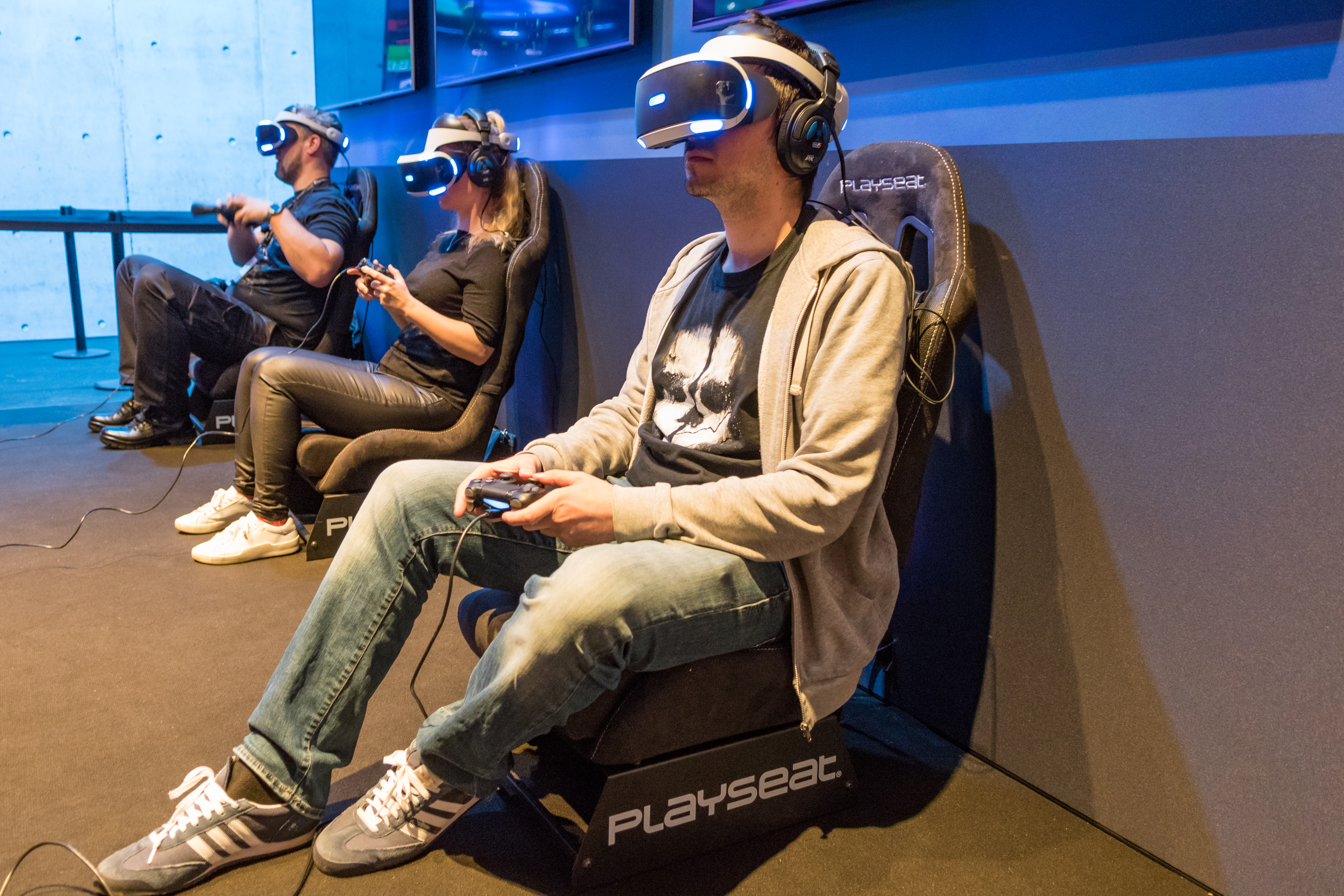 Gamescom Playstation VR Playseat